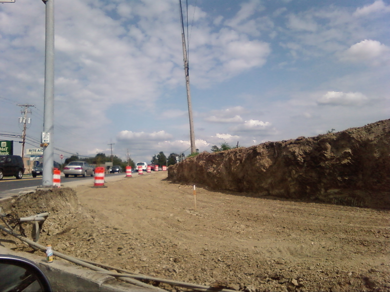 This is the intersection of Pennsylvania Route 39 and Progress Avenue, under construction.